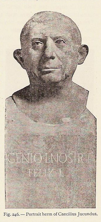 Herm of Lucius Caecilius Jucundus, set up in the atrium of his house on Stabian Street. The pillar is of marble, the dedication reads Genio L(ucii) nostri Felix l(ibertus) - "Felix, freedman, to the Genius of our Lucius". The bust is of bronze, pillar of marble.